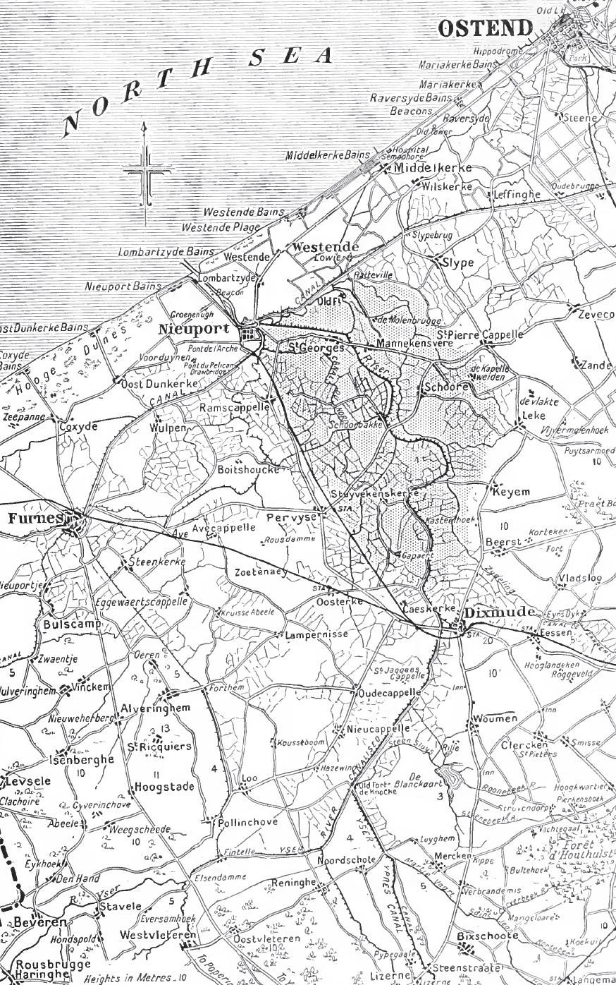 Map of Yser inundations and western approaches to Houthoulst Forest, 1914